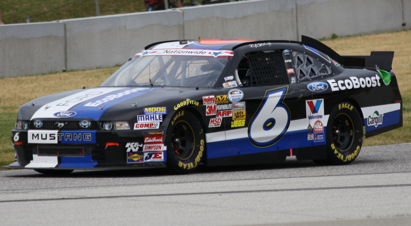 Ricky Stenhouse, Jr. NASCAR Nationwide Series car at Road America at the 2012 Sargento 200.